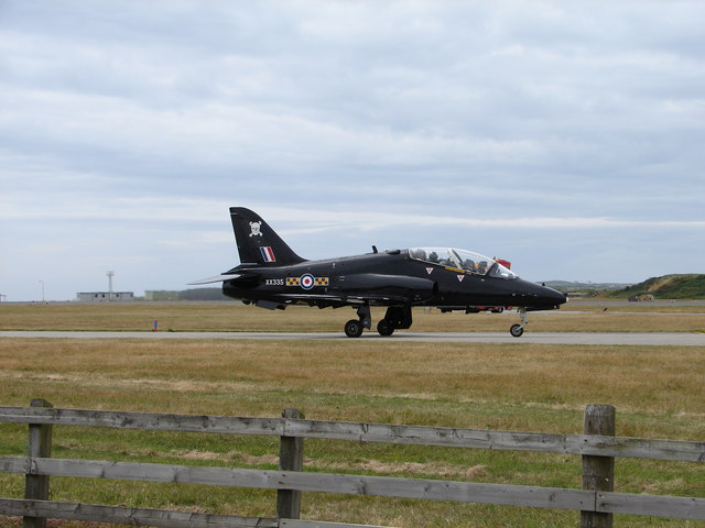 RAF Valley, Hawk Aircraft